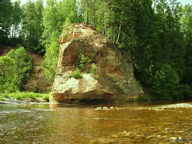 Zvartes rock on the Amata river, Gauja National Park, Latvia.